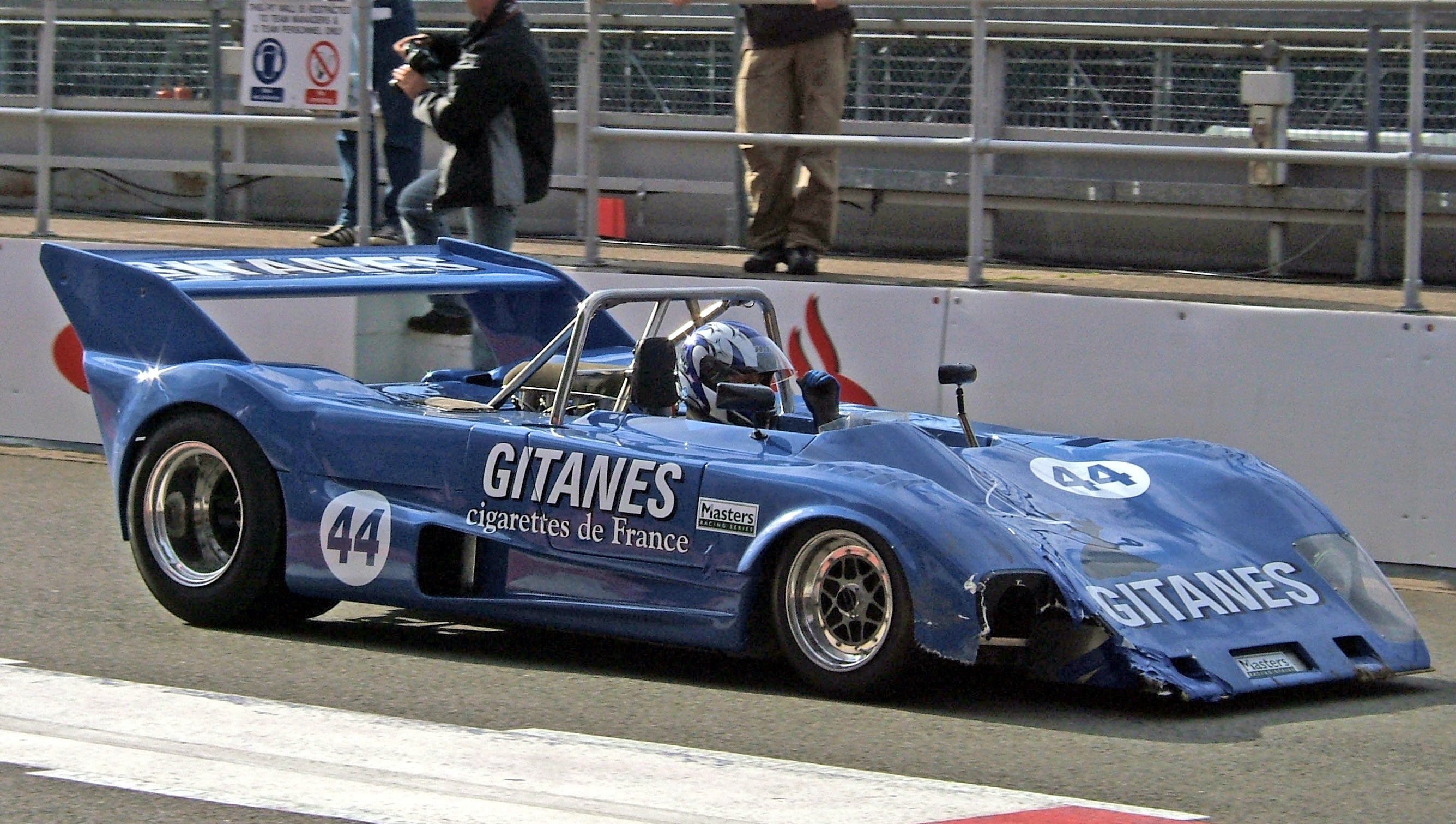 A damaged Lola T280 returns to the pits during qualifying for the World Sportscars Masters race at the Silverstone Classic metting, July 2007.